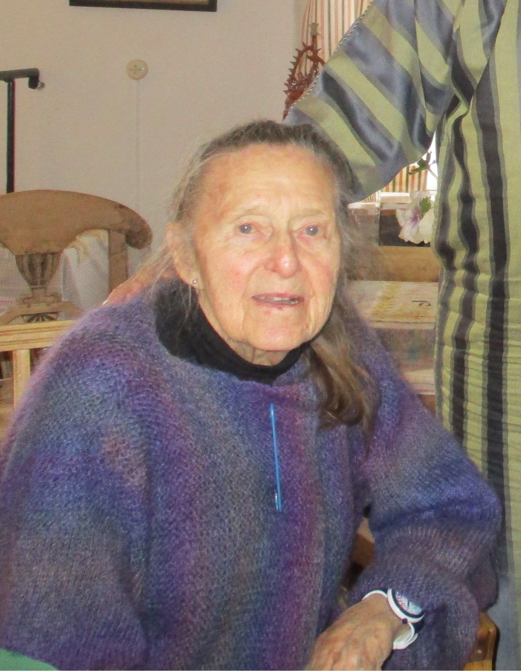 Inga Brorson BrandPlace: Brand residence, Gothenburg, Sweden